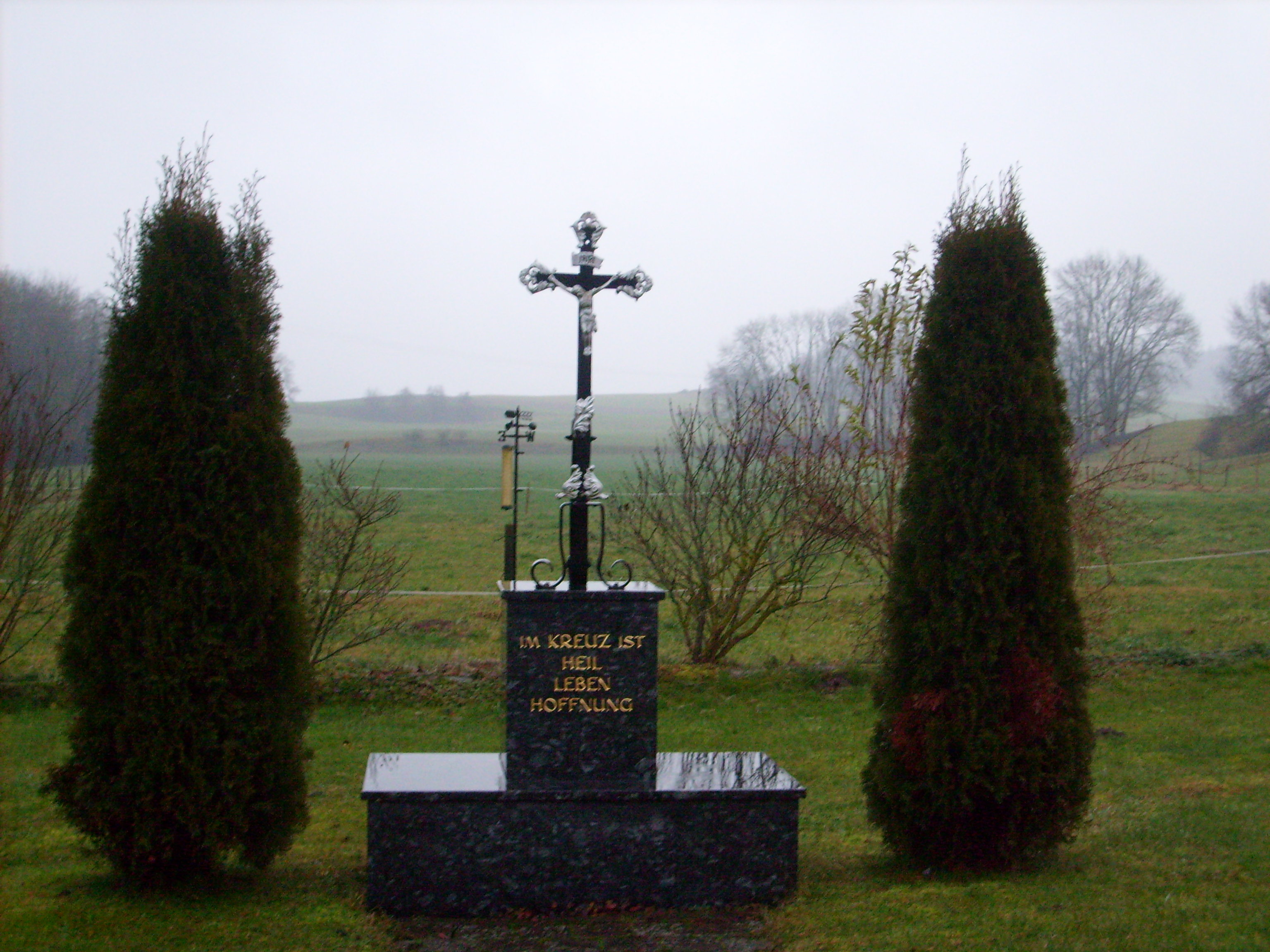 A calvary in Andelsbach, a hamlet of Denkingen, a village in the City of Pfullendorf in the district of Sigmaringen in Baden-Württemberg in Germany.